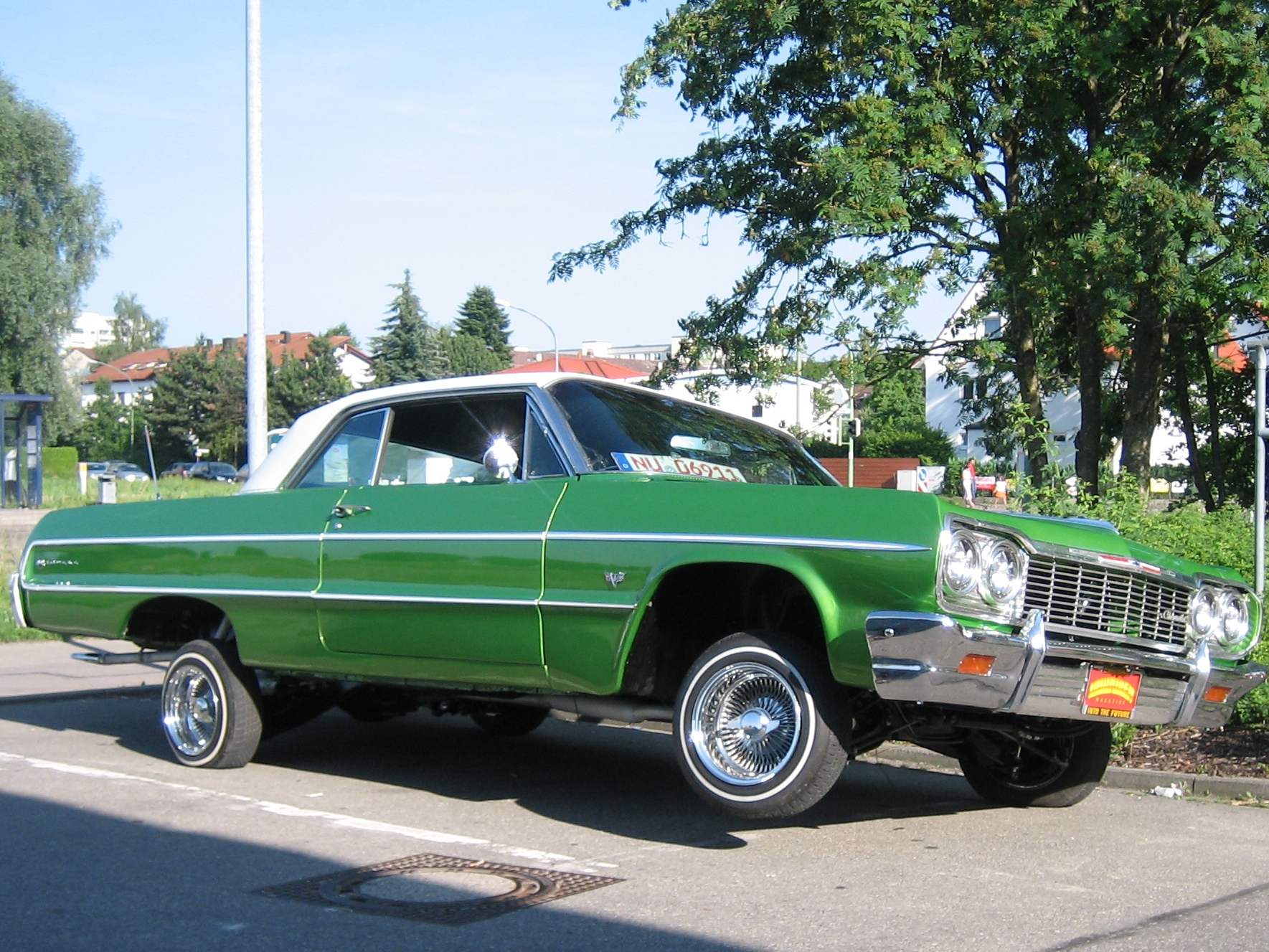 Picture of my Chevrolet Impala 1964 Lowrider